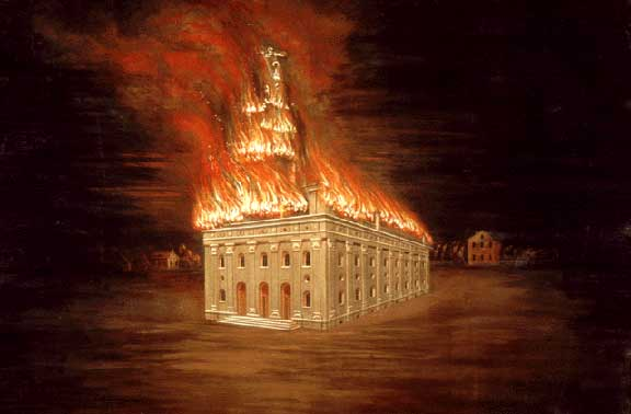 an illustration of the burning of the Nauvoo Temple.